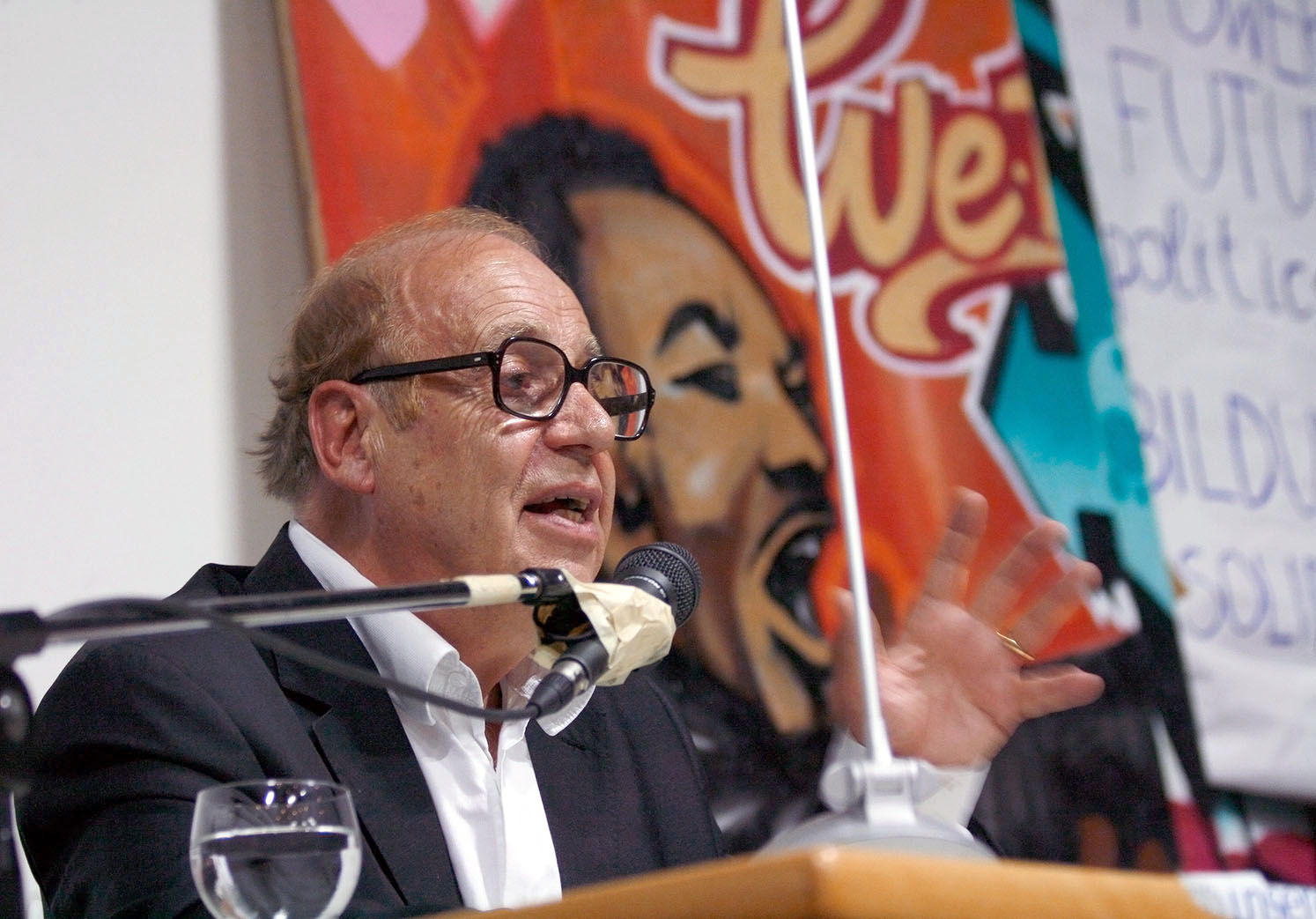 Jean Ziegler at the Auditorium Maximum of the University of Vienna that was occupied by protesting students in autumn 2009.